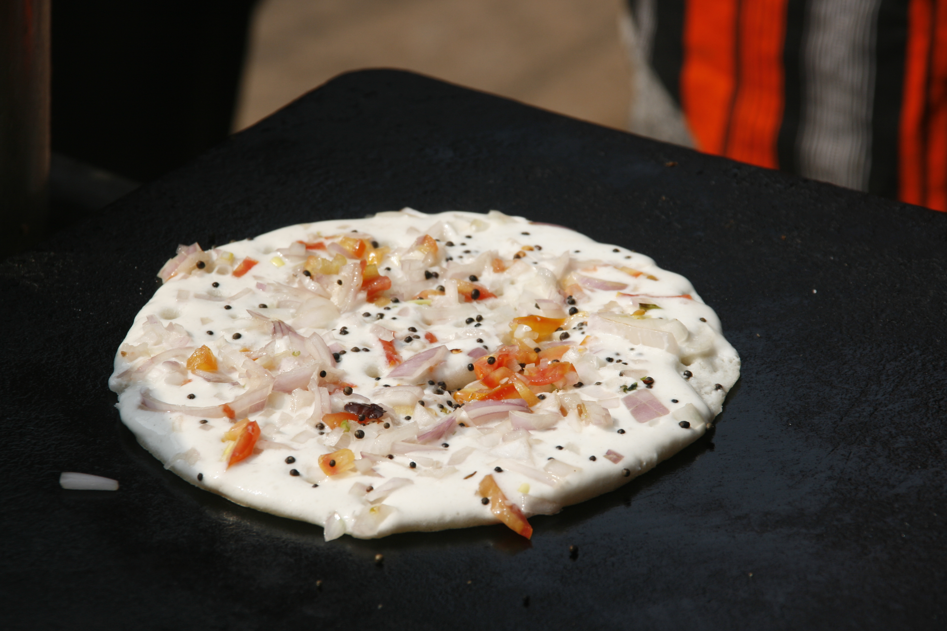 Indian Pancake as a street food in Varanasi